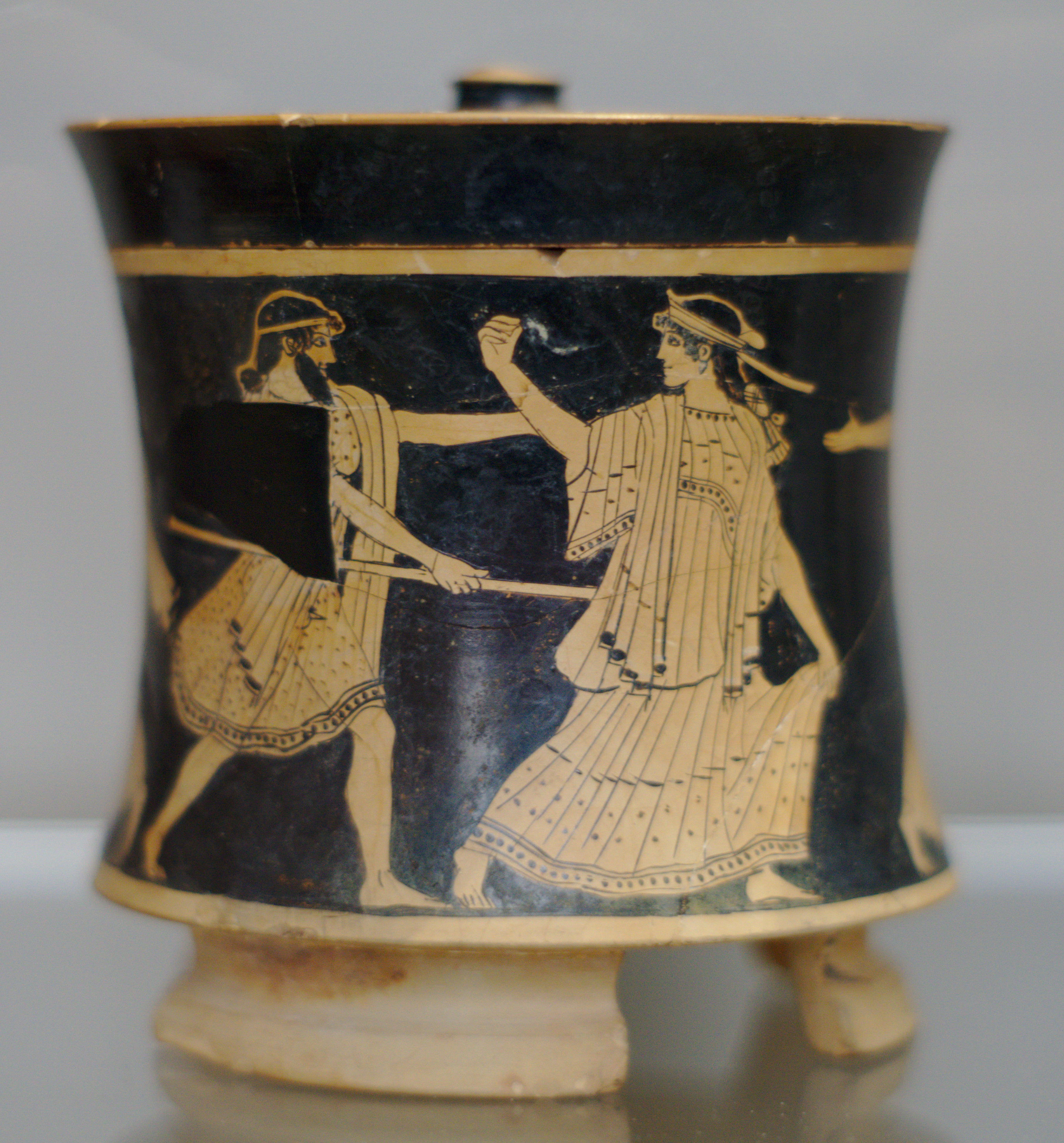 Attic red-figure pyxis (c.470–460 BC) showing the abduction of Aigina, one of the daughters of Asopus, by Zeus. The other side of the vase shows Asopus and his other daughters. The vase is in the collection of the Fitzwilliam Museum, Cambridge. Accession number: GR.10.1934